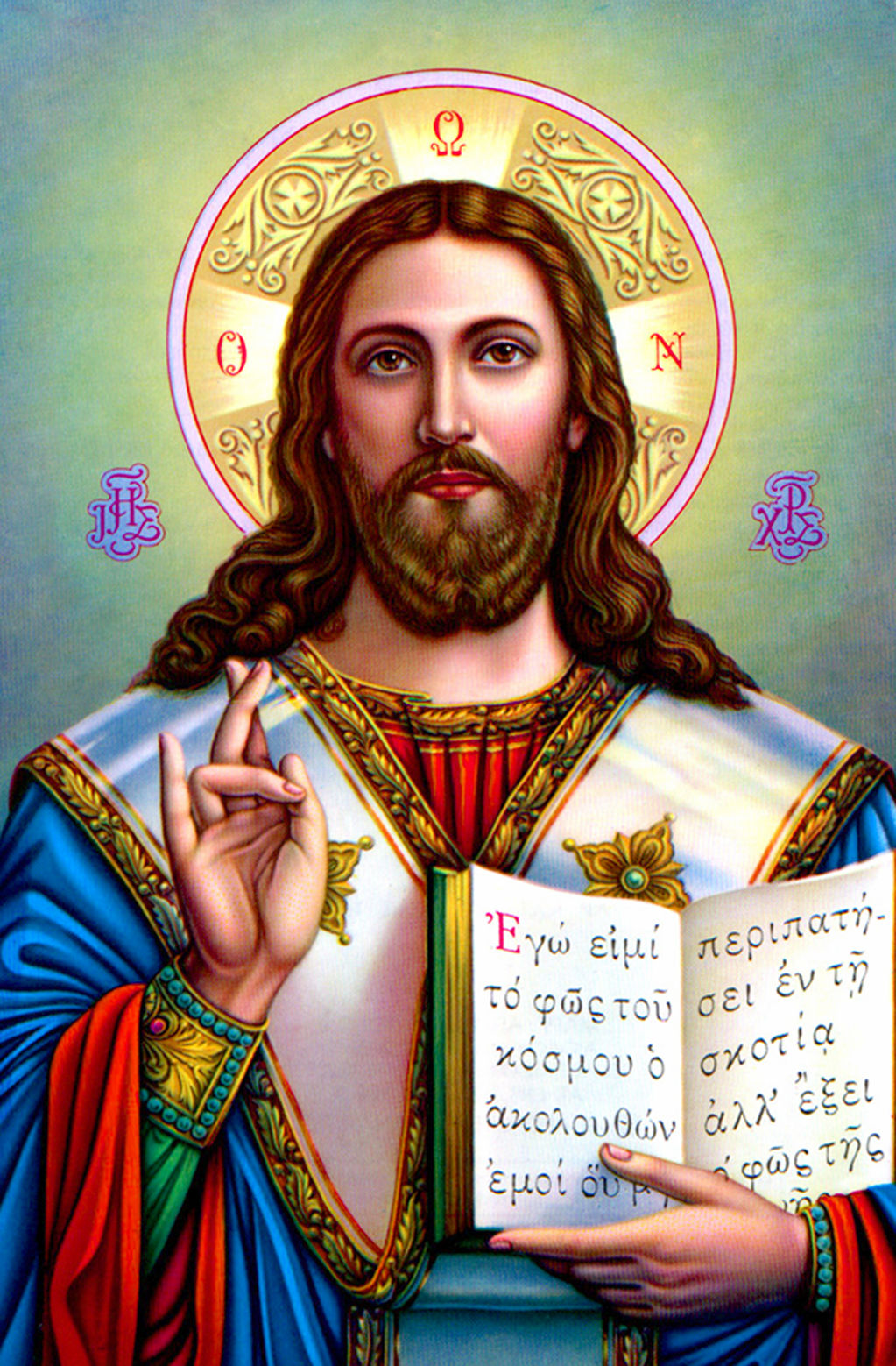 Iisus_Hristos20